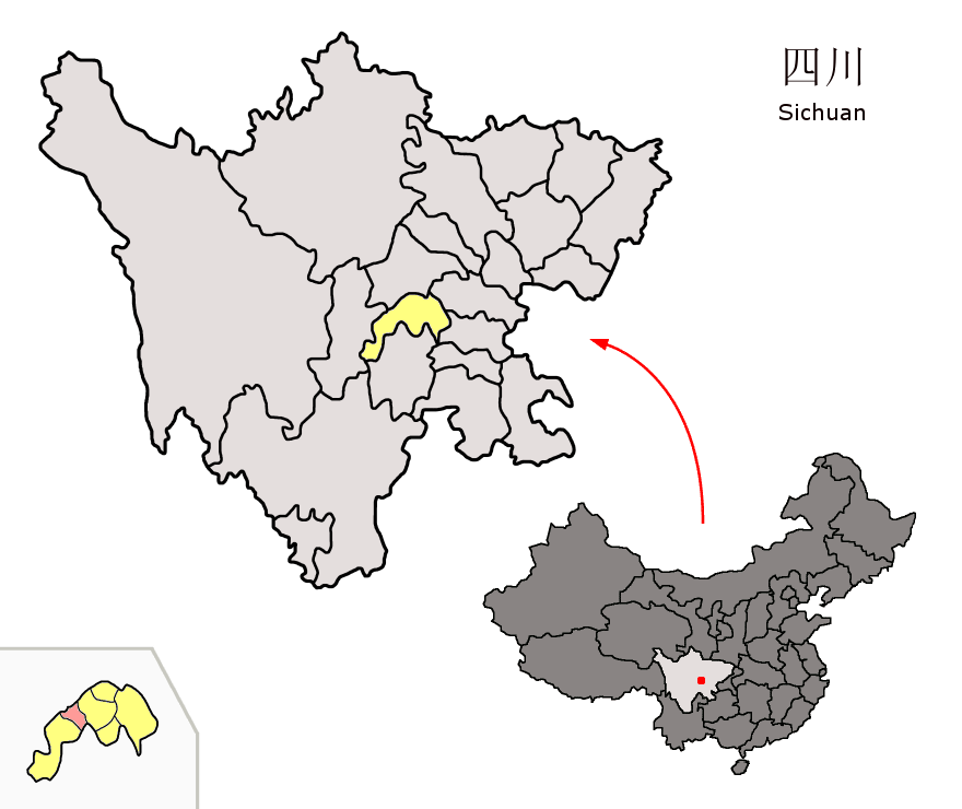 Location of Danleng County (pink) and Meishan Prefecture (yellow) within Sichuan province of China Map drawn in october 2007 using various sources, mainly : Sichuan province administrative regions GIS data: 1:1M, County level, 1990 Sichuan Counties map from